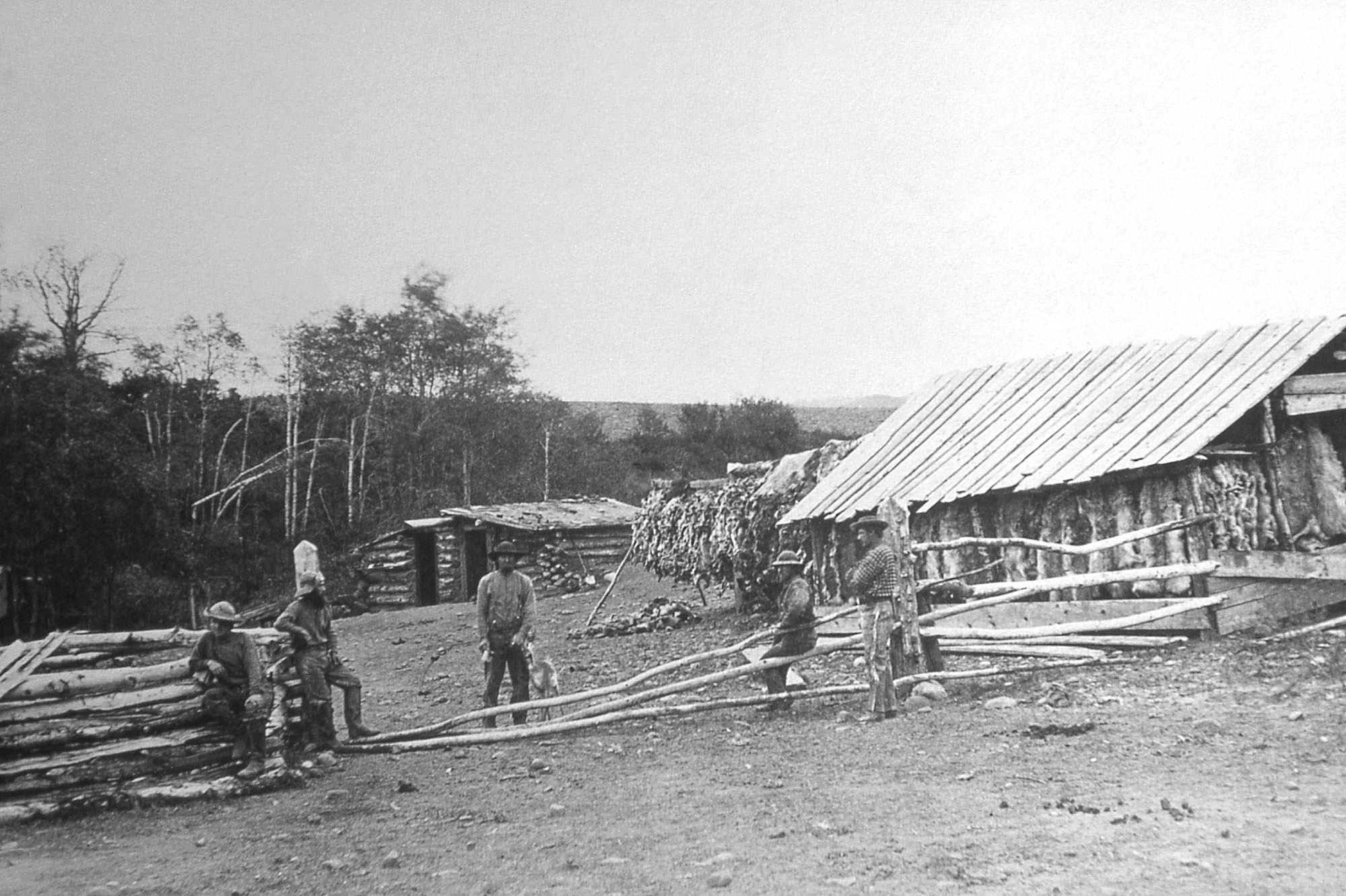 Boteler Brothers Ranch, Paradise Valley (near modern Emigrant in Park County), Yellowstone River, Montana during Hayden 1871 Geological Survey, July 17, 1871